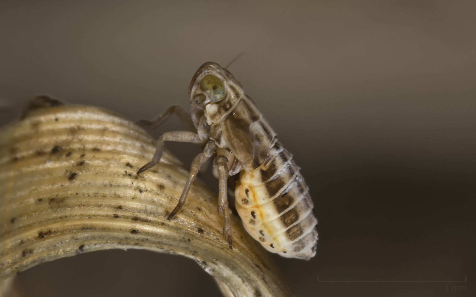 The Auchenorrhyncha is the suborder of the Hemiptera which contains most of the familiar members of what was traditionally called the Homoptera. As shown a larvae of (Delphacidae) which is a family of planthoppers.